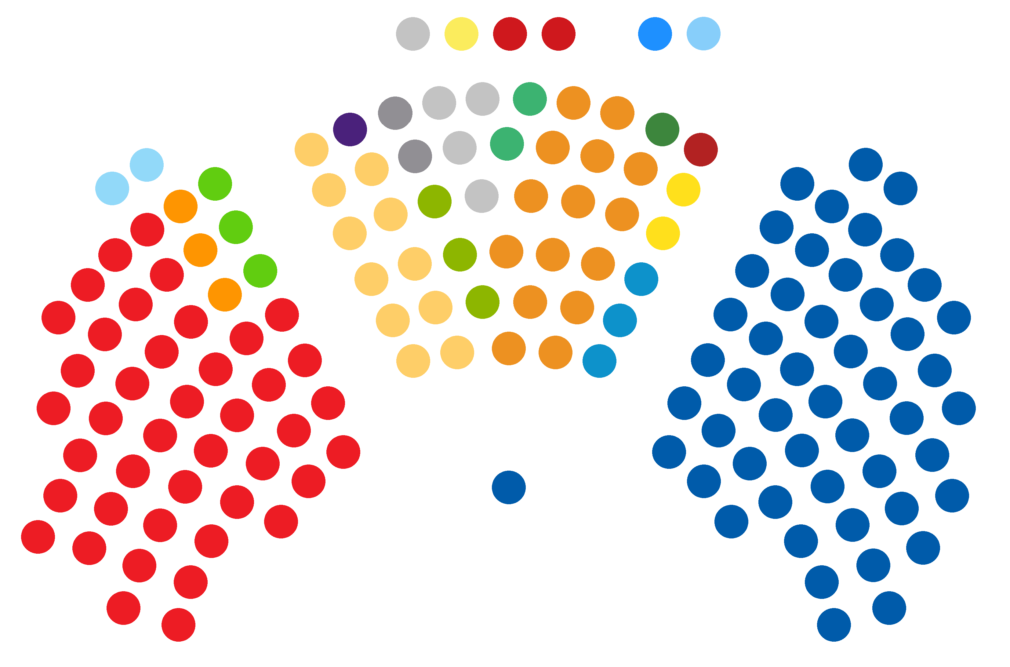 Graphical presentation of the distributions of party seats in Croatian Parliament